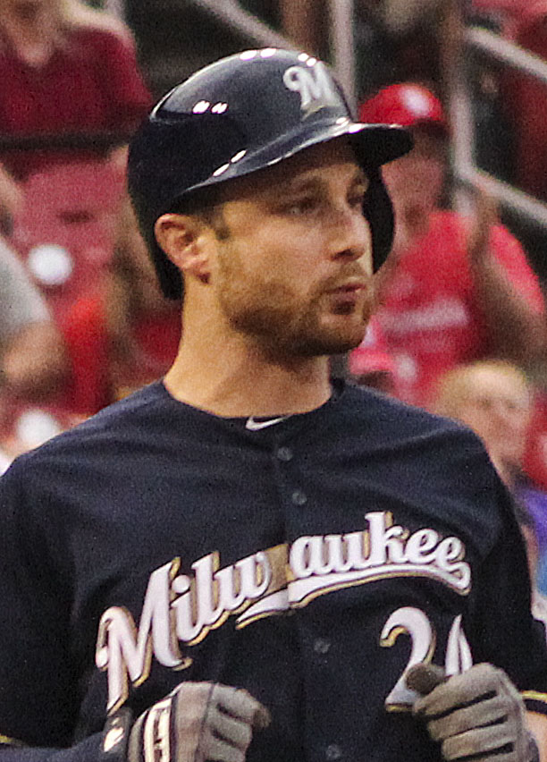 Milwaukee Catcher Lucroy